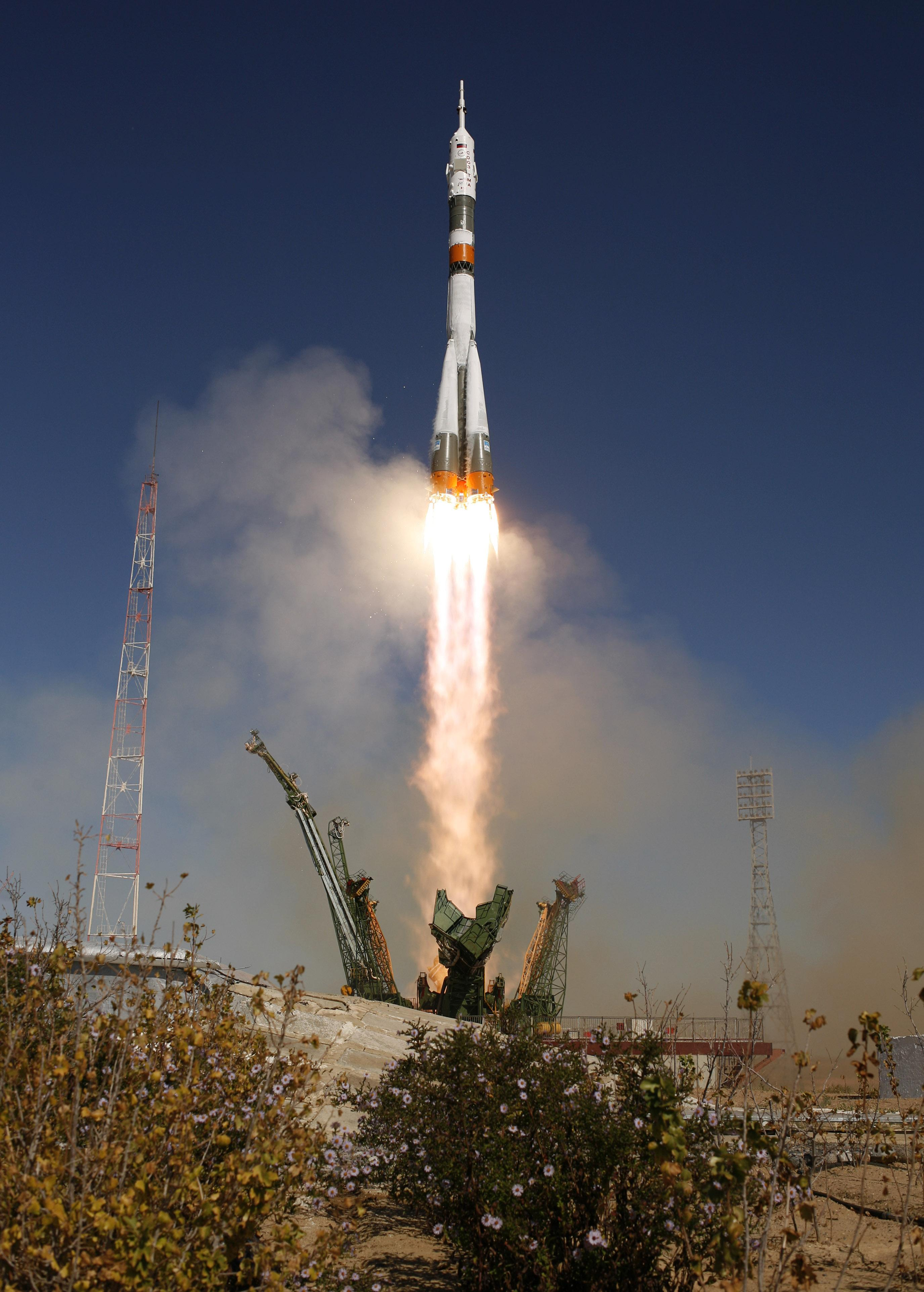 Carrying Expedition 21 flight engineers Jeffrey Williams and Maxim Suraev, as well as a spaceflight participant, this Soyuz TMA-16 launched from the Baikonur Cosmodrome in Kazakhstan on its way to the International Space Station.